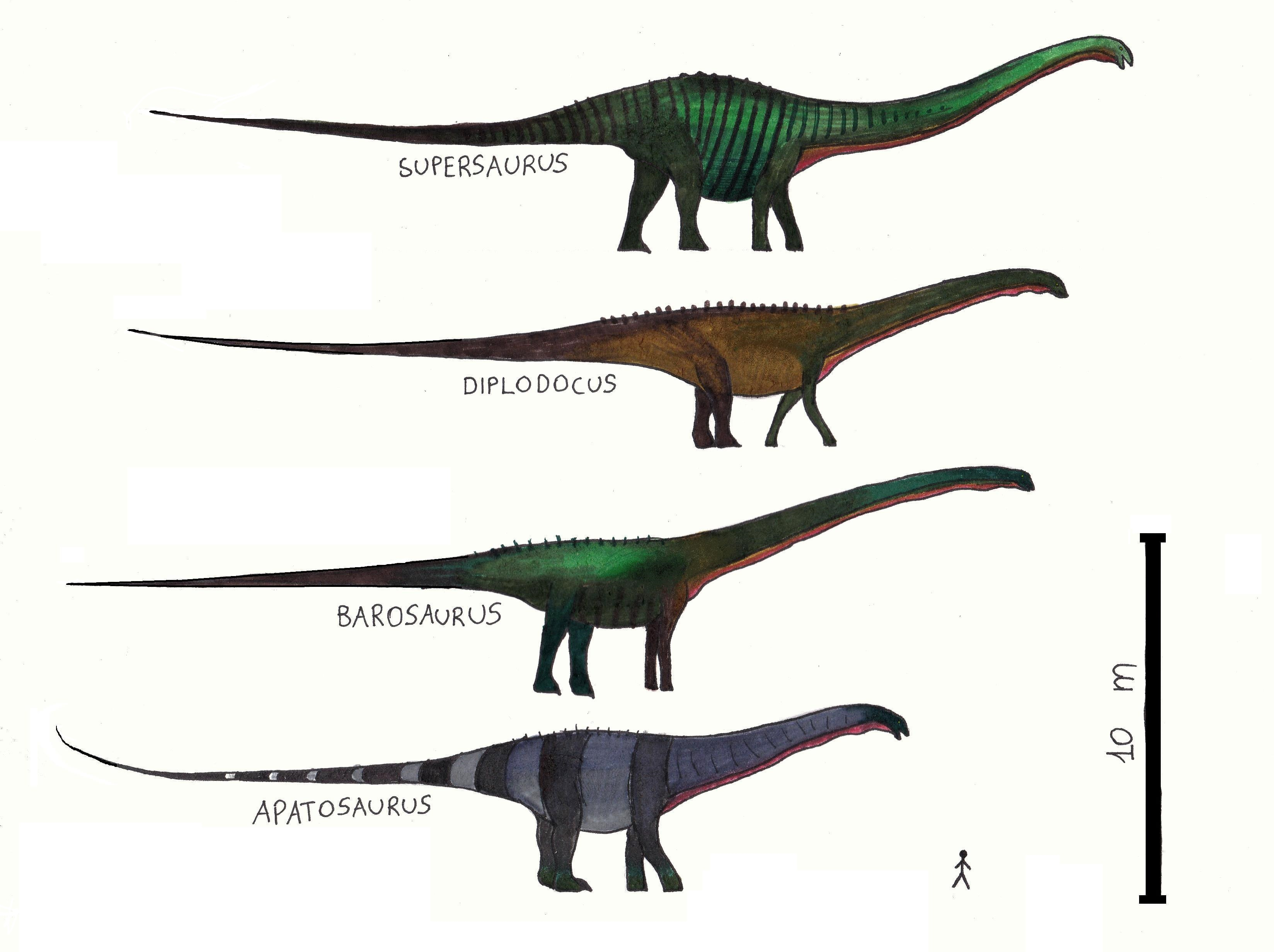 Diplodocidae size comparison